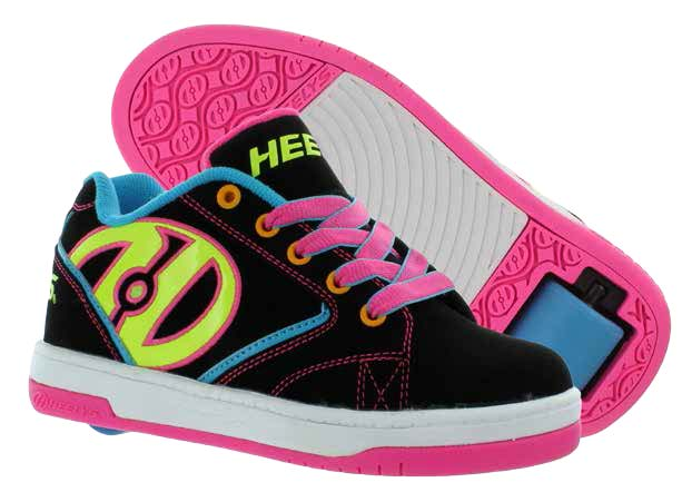 Heelys Propel